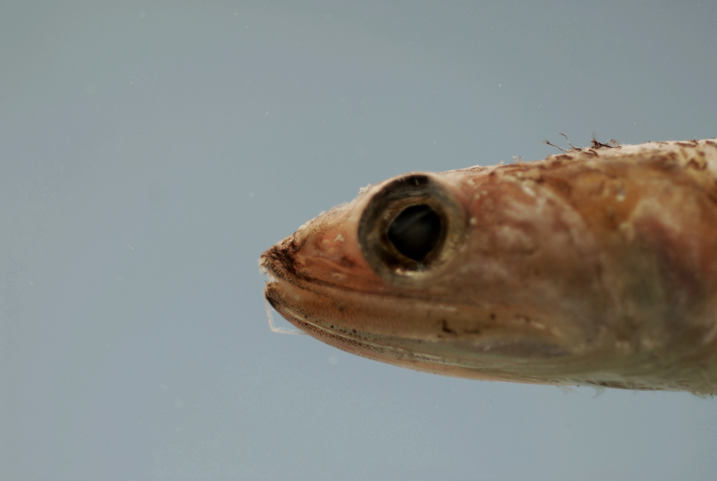 Snout of Shortjaw lizardfish ( Saurida normani ). Gulf of Mexico.